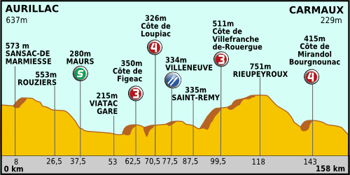 Profil of the 10th stage of the Tour de France 2011